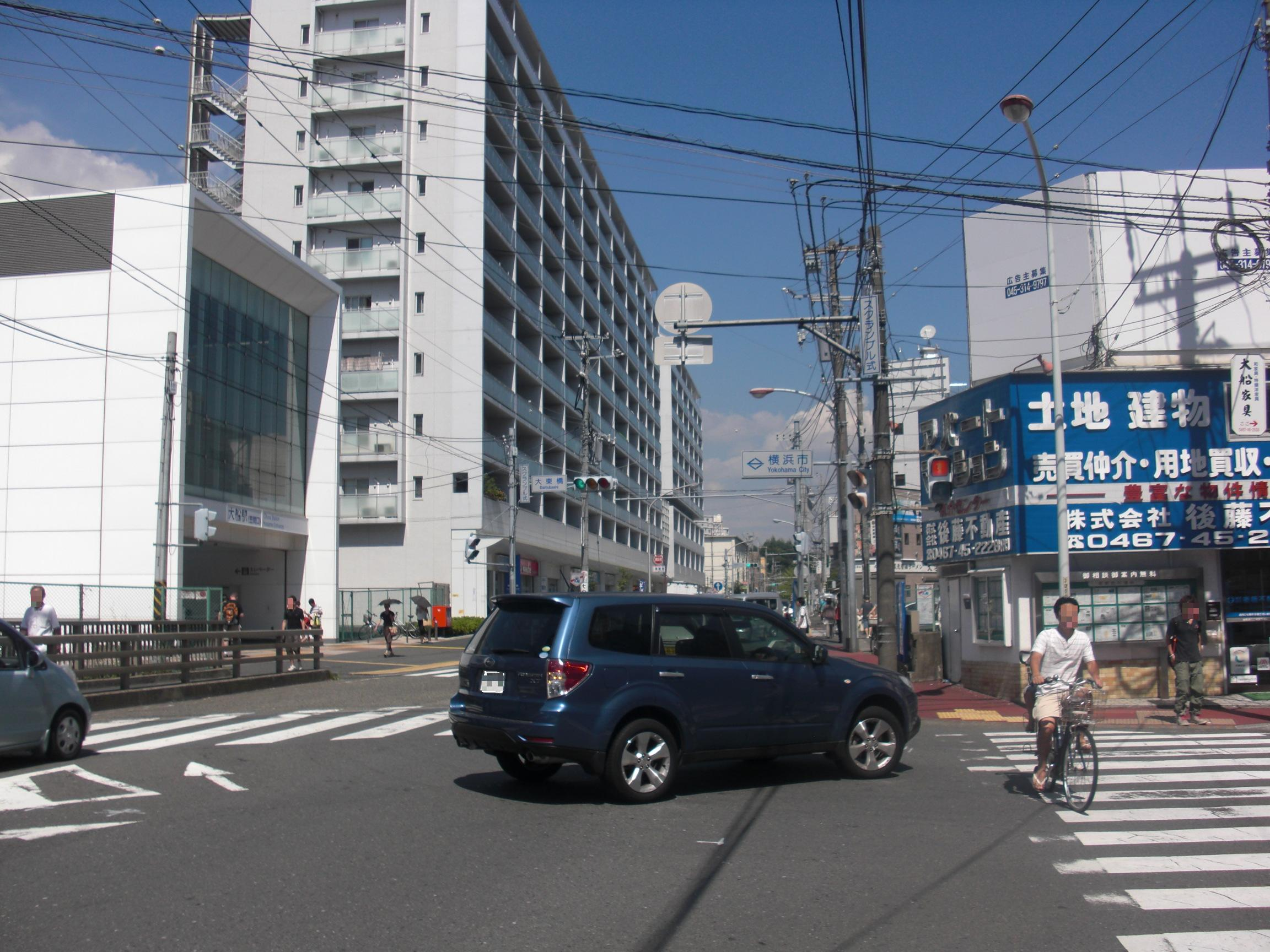 This is a neighbor of JR Ofuna Station, Daitobashi Intersection. This photo was taken from Kamakura City. In this photo, you can see Yokohama City.